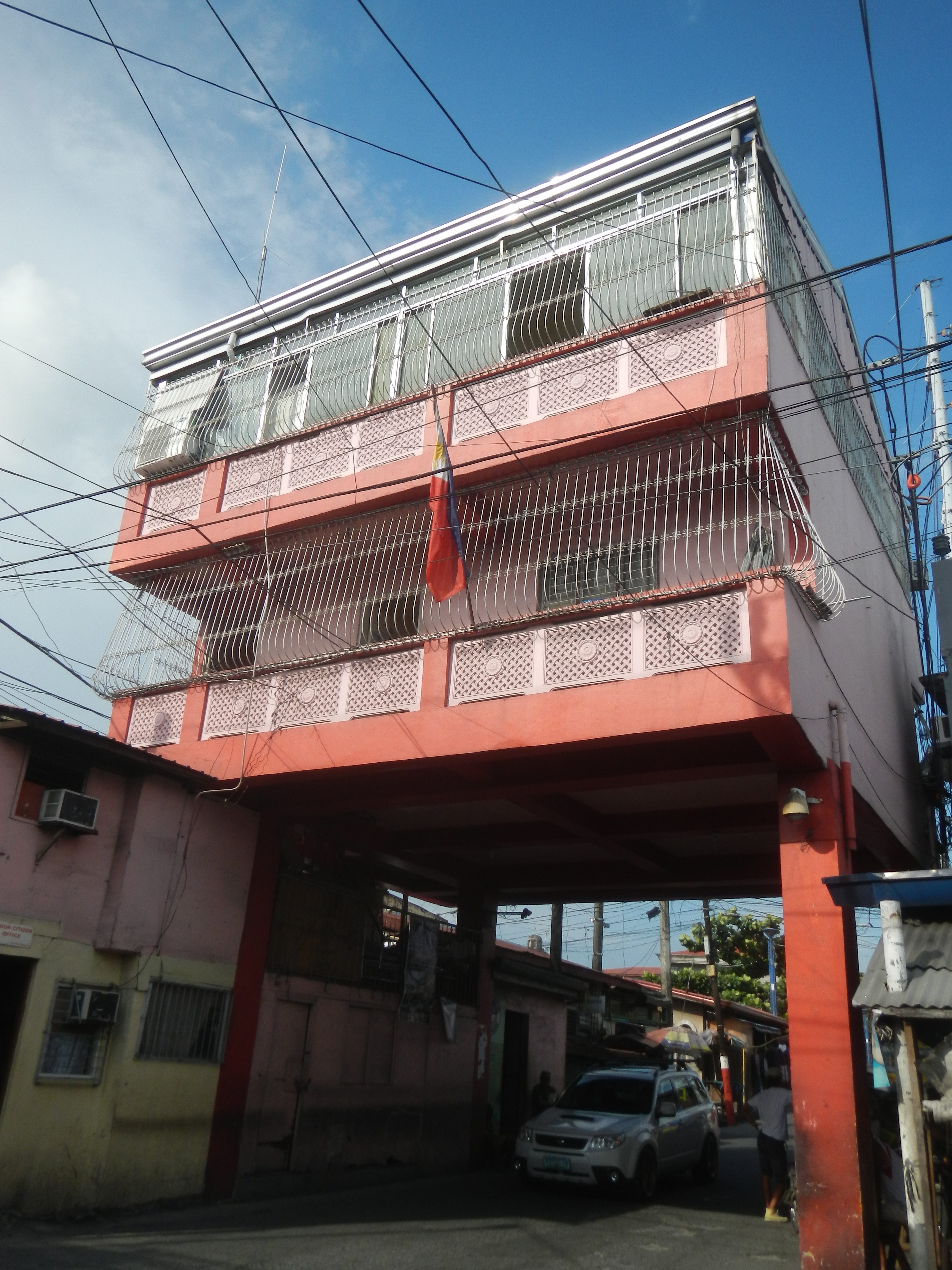 Statues of Saint John of Sahagun in the Philippines San Juan de Sahagun Chapel (Bambang, Taguig City) San Sebastian Chapel (Wawa, Taguig City) Blessed on January 20, 2013 The Church of Jesus Christ of Latter-Day Saints (San Miguel, Taguig City) Taguig Science High School Taguig River Bambang, TaguigBambang, Taguig Tuktukan, Taguig City Barangays Tuktukan 14°31'46"N 121°4'14"E Bambang 14°31'26"N 121°4'4"E Calzada 14°32'1"N 121°4'47"E Taguig City (Note: Judge Florentino Floro, the owner, to repeat, Donor Florentino Floro of all these photos hereby donate gratuitously, freely and unconditionally all these photos to and for Wikimedia Commons, exclusively, for public use of the public domain, and again without any condition whatsoever).